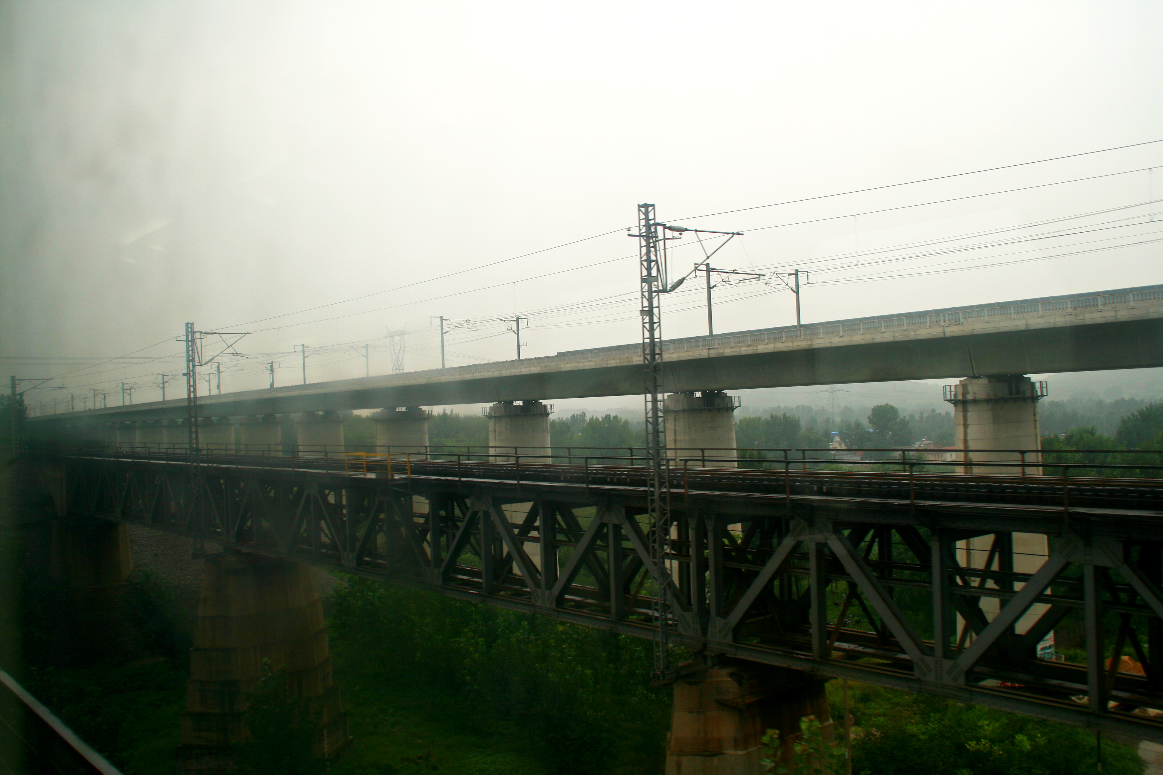 The picture shows the Beijing–Shanghai High-Speed Railway (on the top) which is parallel to Beijing–Shanghai Railway (on the bottom)